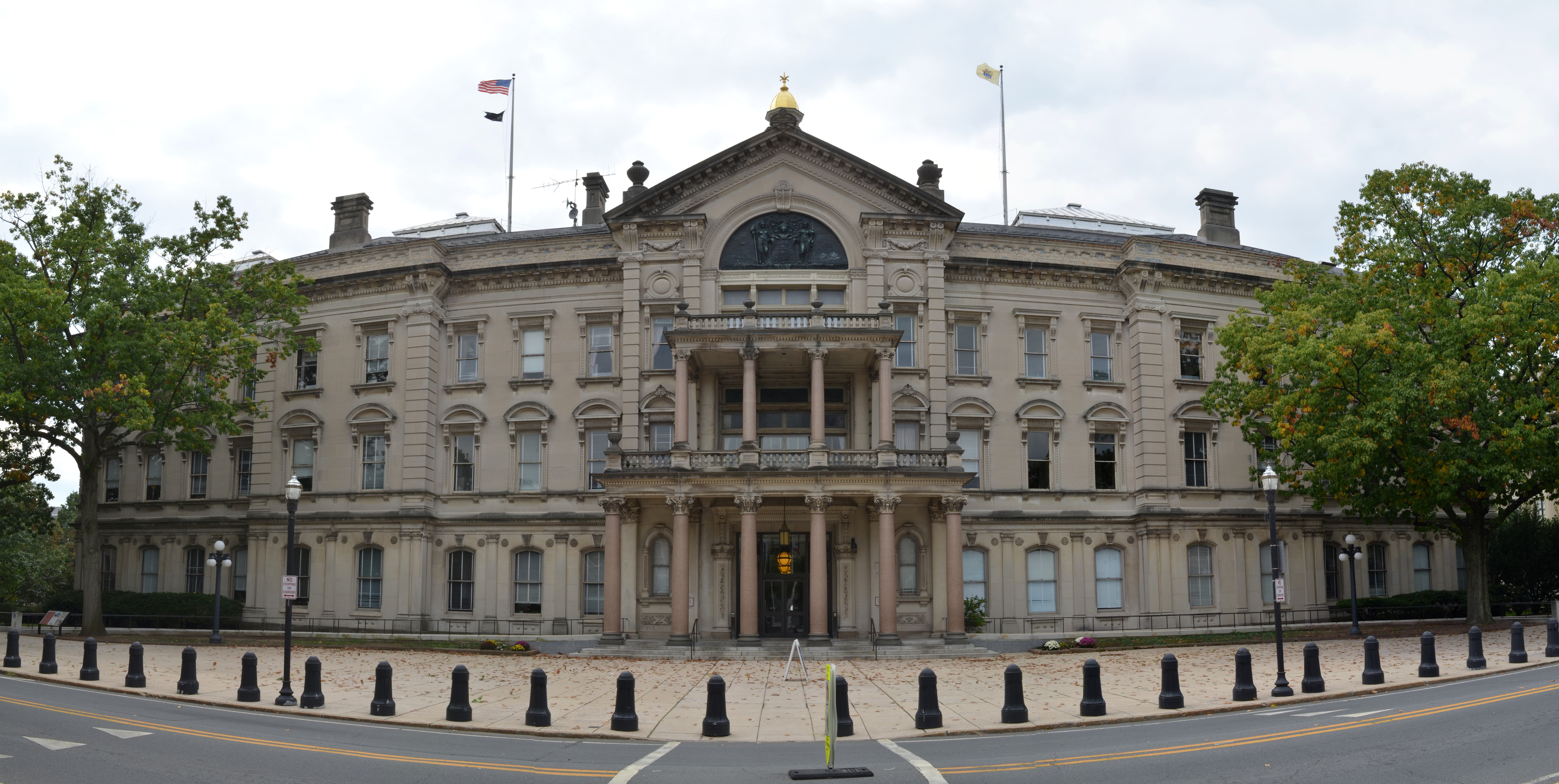 Panorama of the north facade of the New Jersey State House on State Street in Trenton, New Jersey.